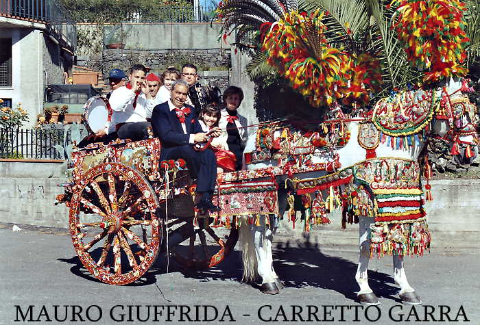 Mauro Giuffrida, with his prize winning Sicilian "Garro" Carretto from Catania, Sicily George Petralia